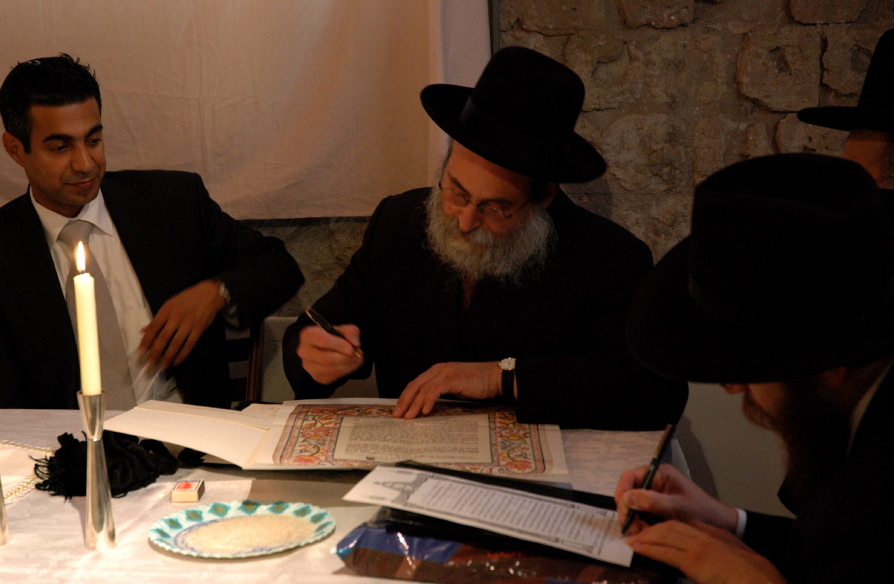 Rabbi Binyomin Jacobs, Chiefrabbi of the Inter Provencial Chief Rabbinate of the Netherlands (IPOR), signing a ketubah.